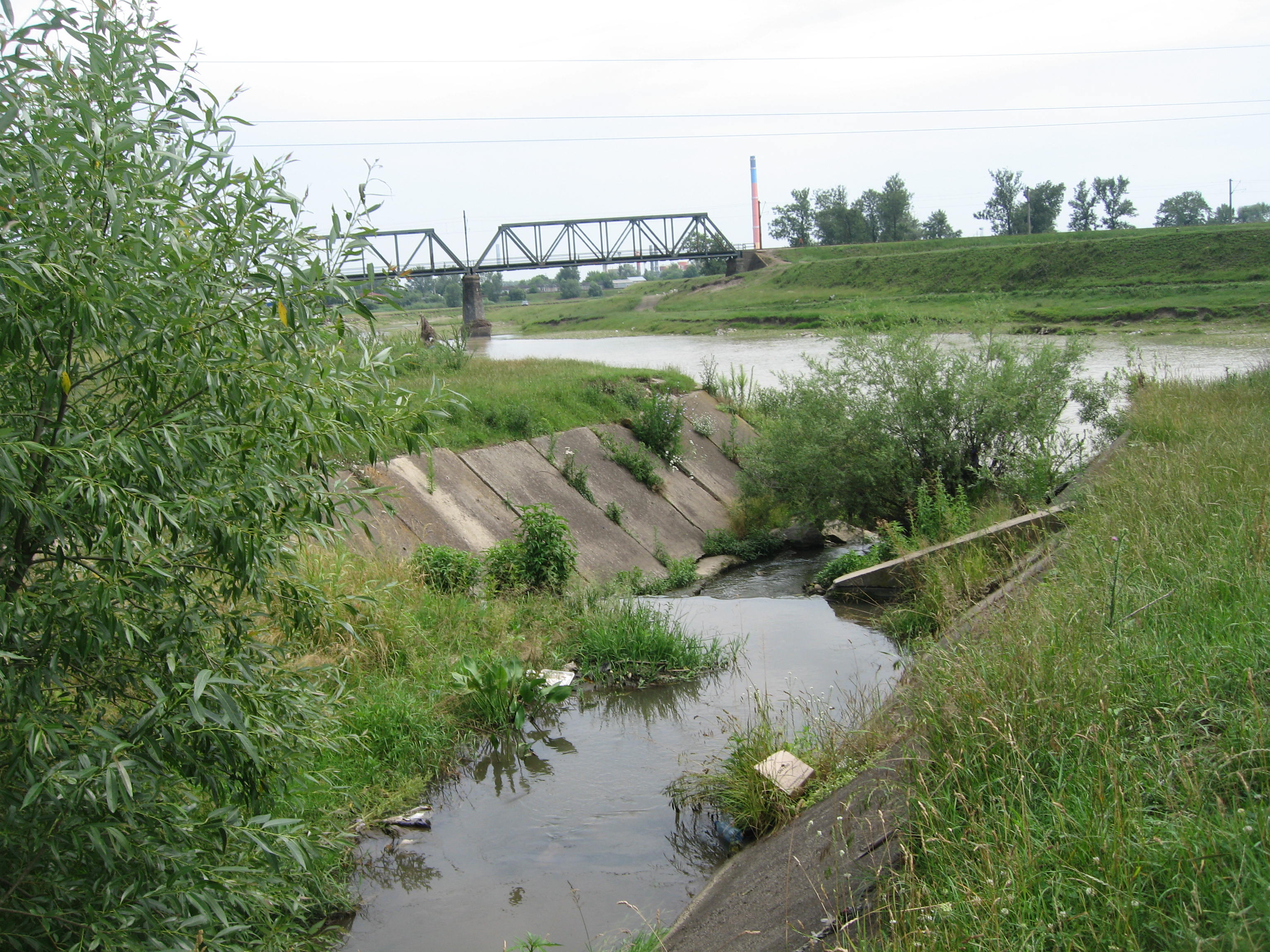 Mitocu River - Iţcani railway bridge in Suceava.